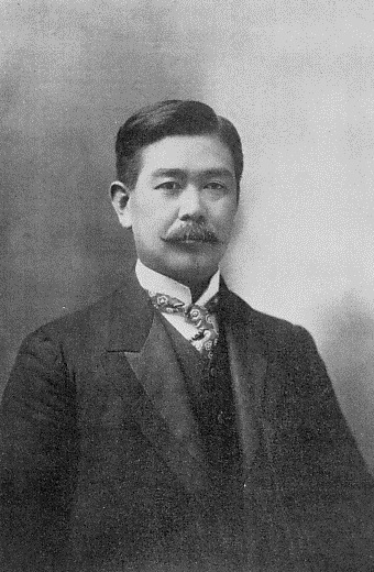 Masao Matsukata